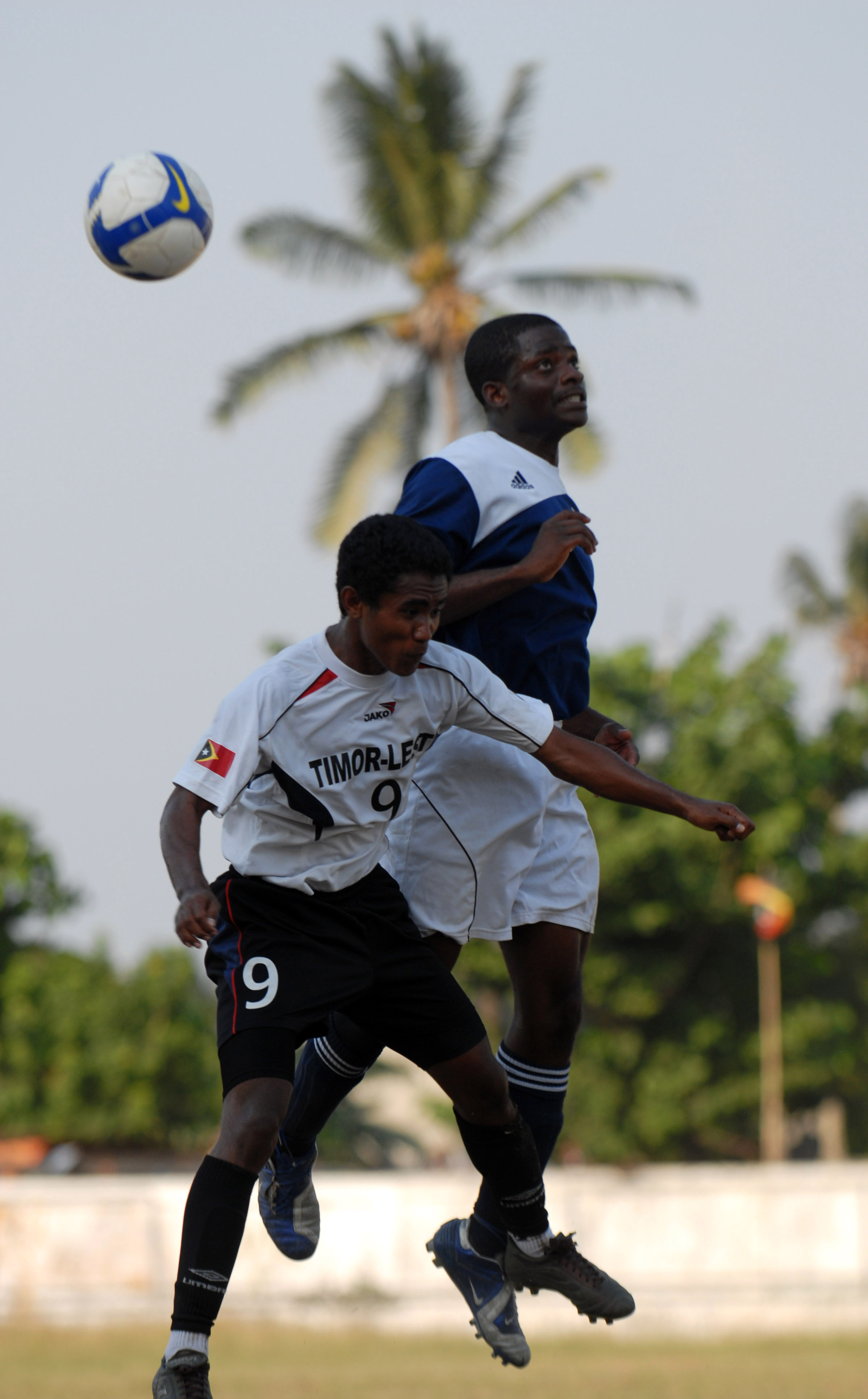 DILI, Timor-Leste (Oct. 18, 2009) A Sailor assigned to the amphibious assault ship USS Bonhomme Richard (LHD 6) and also on the ship's soccer team plays soccer with a member of the Under-Seventeen Timor-Leste National Soccer Team at Dili National Stadium. (U.S. Navy photo by Mass Communication Specialist Seaman Apprentice Wyatt Lehman/Released)